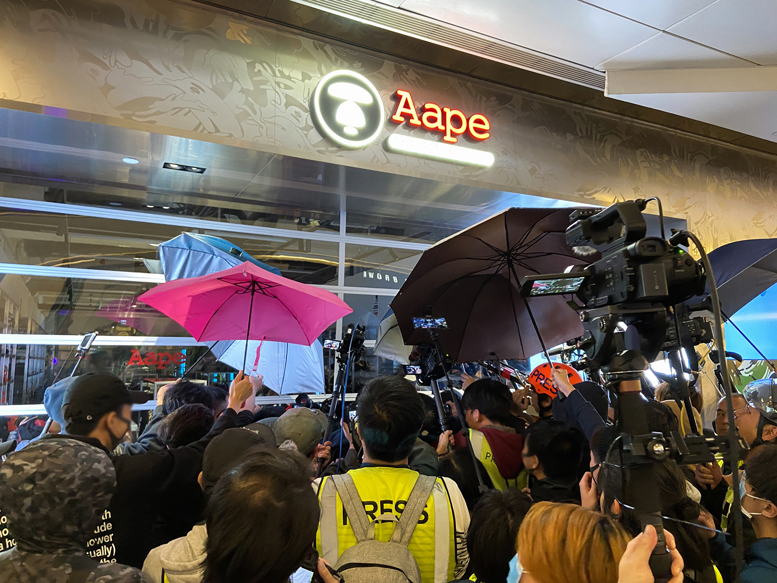 Protester surround a women in New Town Plaza